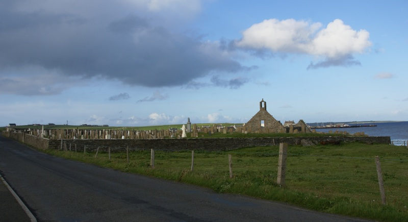 Pierowall Church, Pierowall, Westray, Orkney, Scotland. View from the south.